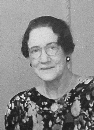 Joan Riviere at a dinner to celebrate Melanie Klein's 70th birthday, at Kettner's, London. W.1, 1952. Clockwise from left to foreground: Eric {Klein?}, Mr. Money-Kyrle, (behind them) Marion Milner, Sylvia Payne (standing), Melanie Klein, Dr. Jones, Dr. Resenfeld, Mrs. Riviere, Dr. Winnicott (sitting), Dr. Heimann, James Strachey, Gwen Evans, Cyril Wilson, Dr. Balint, Judy {?} Archives & Manuscripts Keywords: jones; klein; milnor; money-kyrle; payne; resenfeld; riviere; winnicott